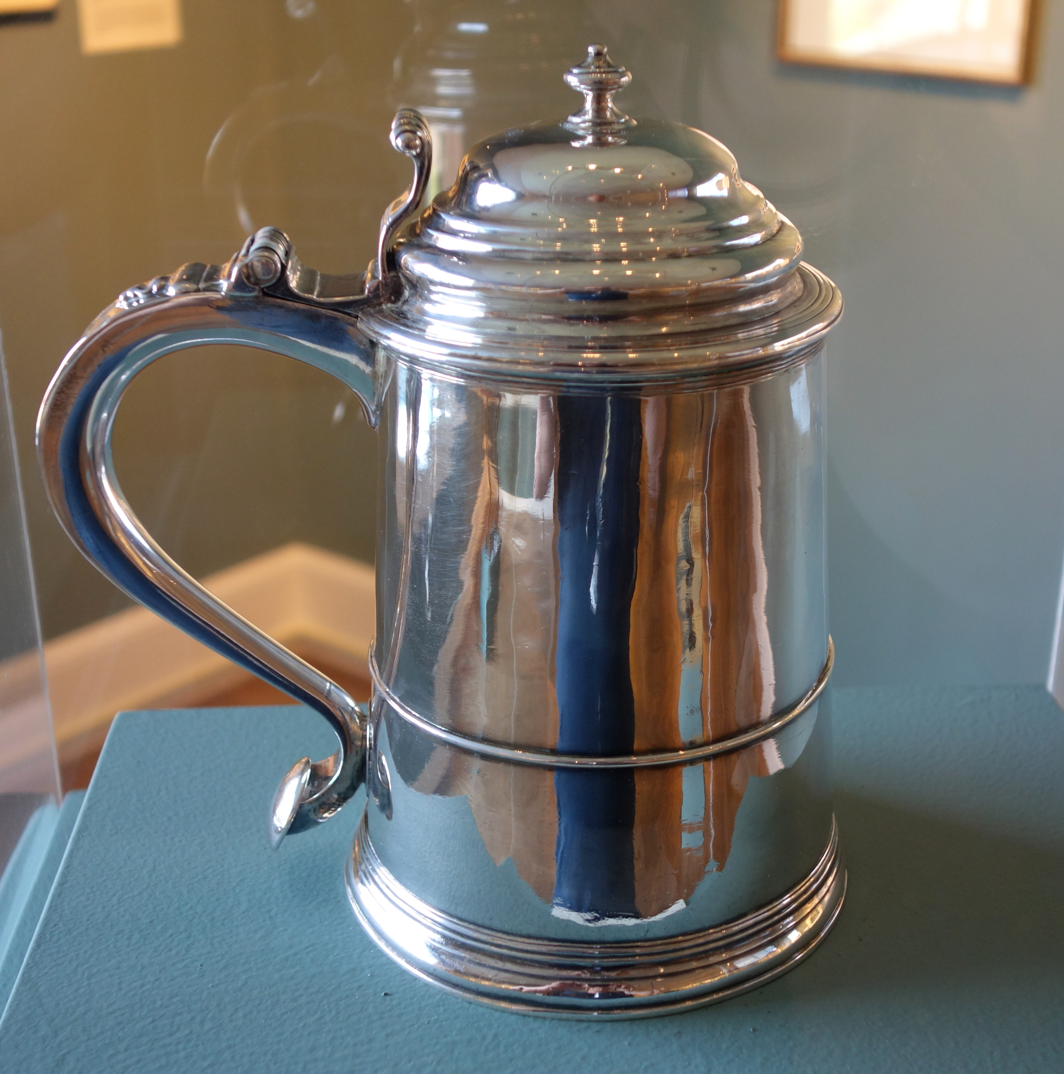 Exhibit in the Fitchburg Art Museum, Fitchburg, Massachusetts, USA. This artwork is old enough so that it is in the public domain.